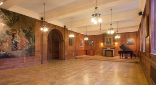 Talbot Hall LMH